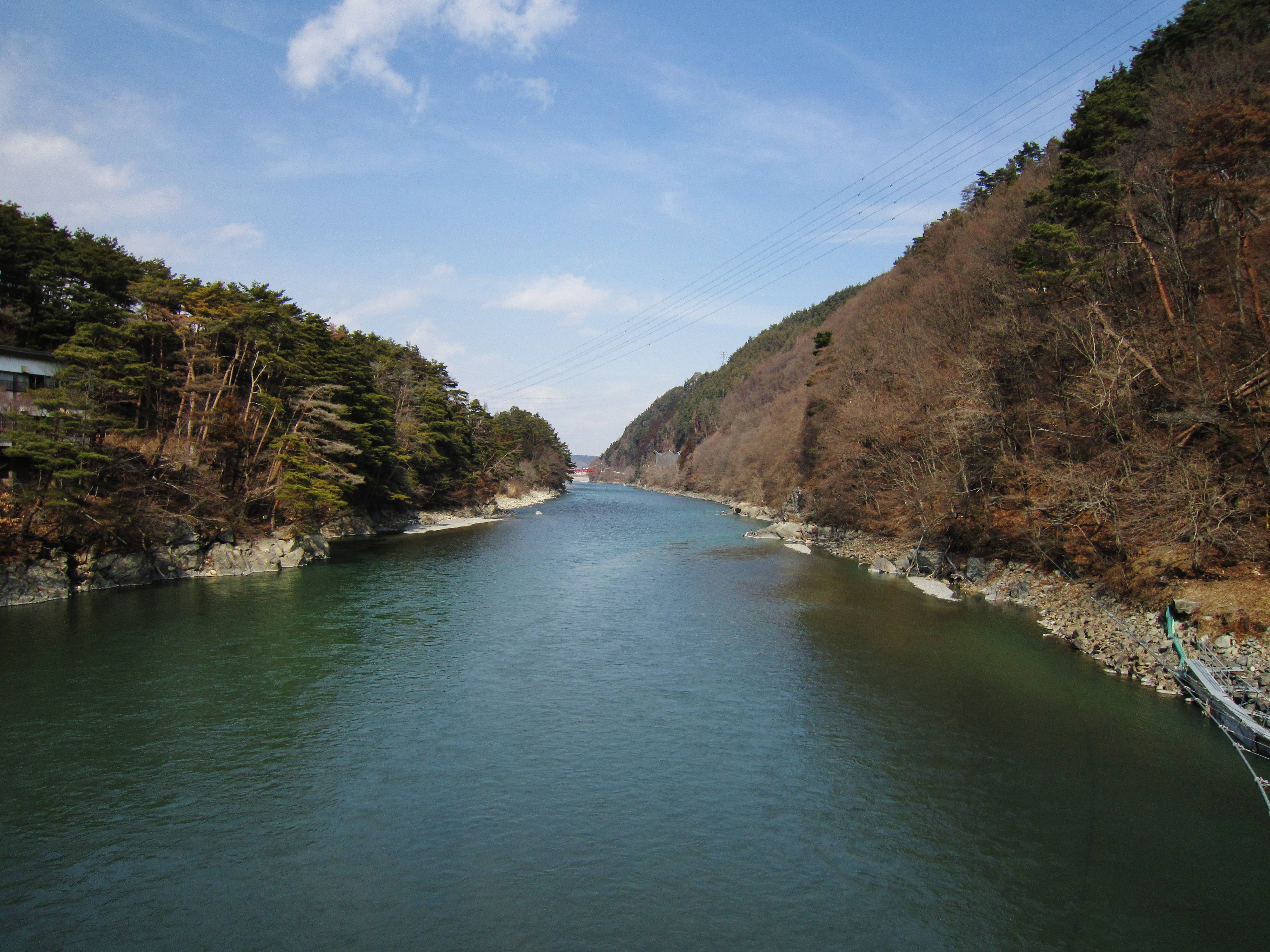 Ōkubo Dam lake.